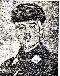 Commander of the Azov Flotilla in 1918.